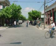 Main road of Lajas (Cienfuegos Province, Cuba), historically known as Santa Isabel de las Lajas.